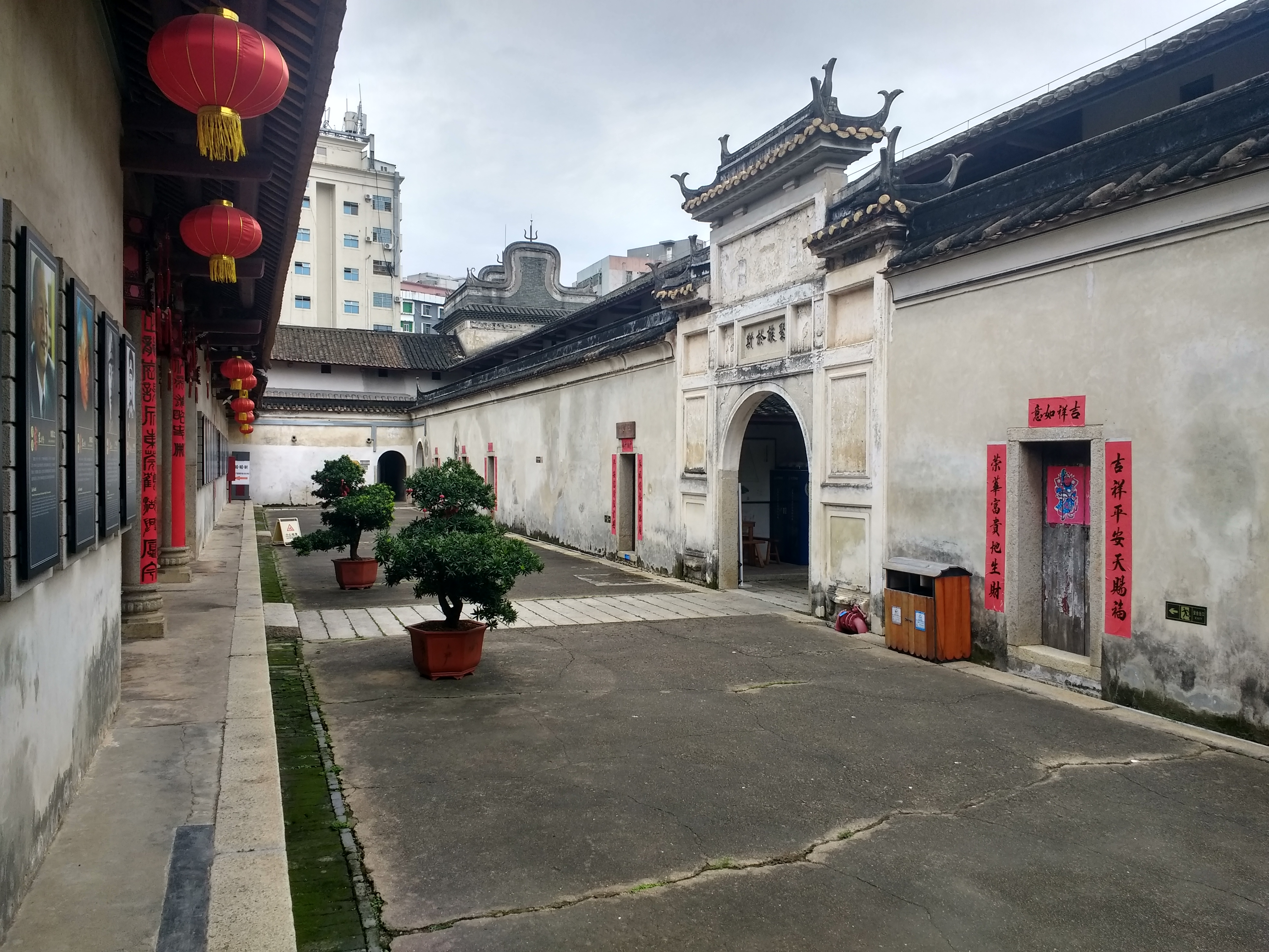 Interior of the Longgang Museum of Hakka Culture (Crane Lake Wei).